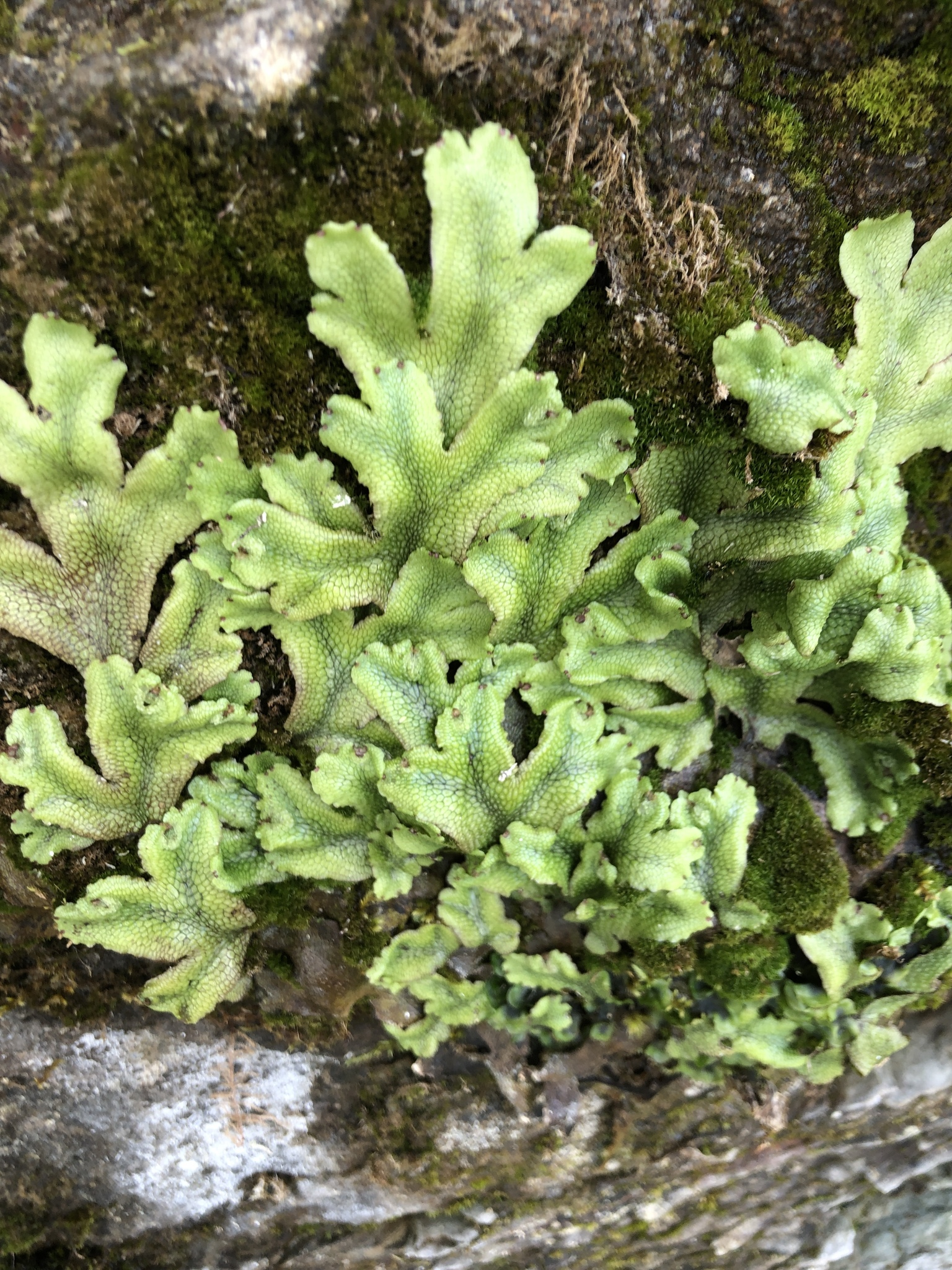 Snakewort